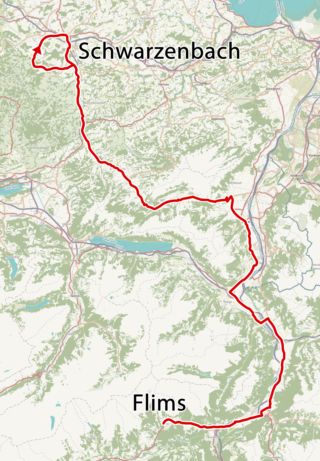 The route of the fourth stage of the 2015 Tour de Suisse. This map may be incomplete, and may contain errors. Don't rely solely on it for navigation.